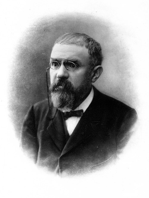 Henri Poincaré, French mathematician, physicist and philosoph